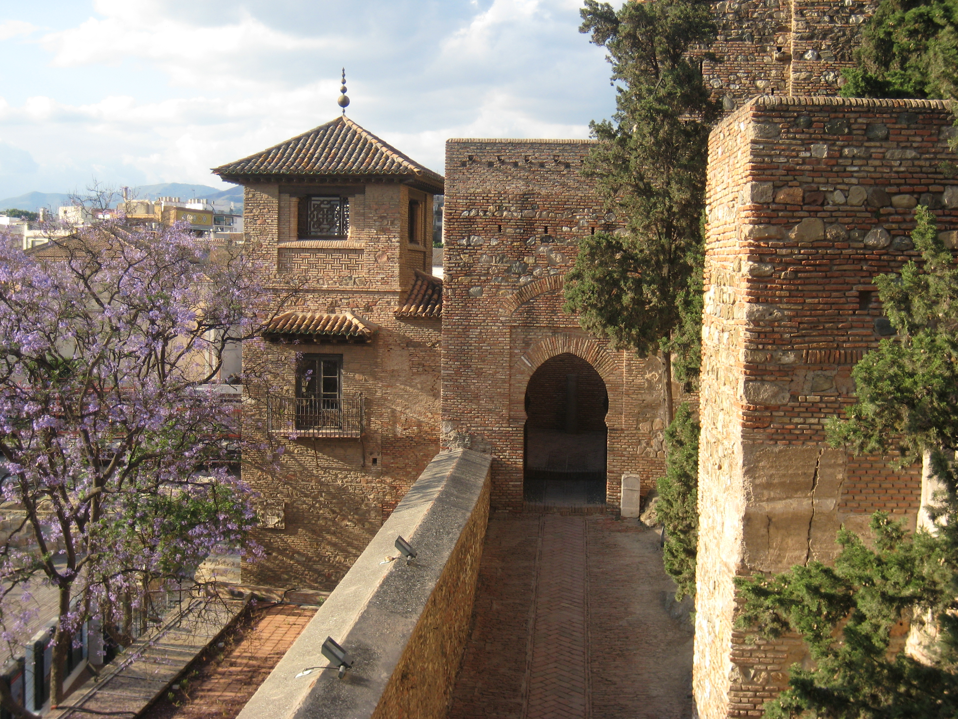 Alcazaba of Málaga, Spain.